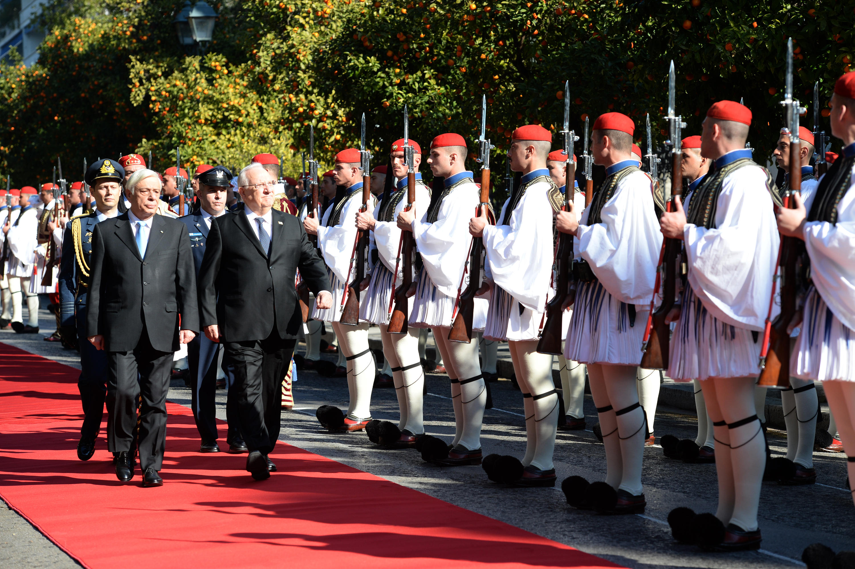 President of Israel, Reuven Rivlin, at a state reception at the Presidential Mansion, after which the two continued to work meeting. Monday, January 29, 2018. Photo credit: Haim Tzach / GPO.